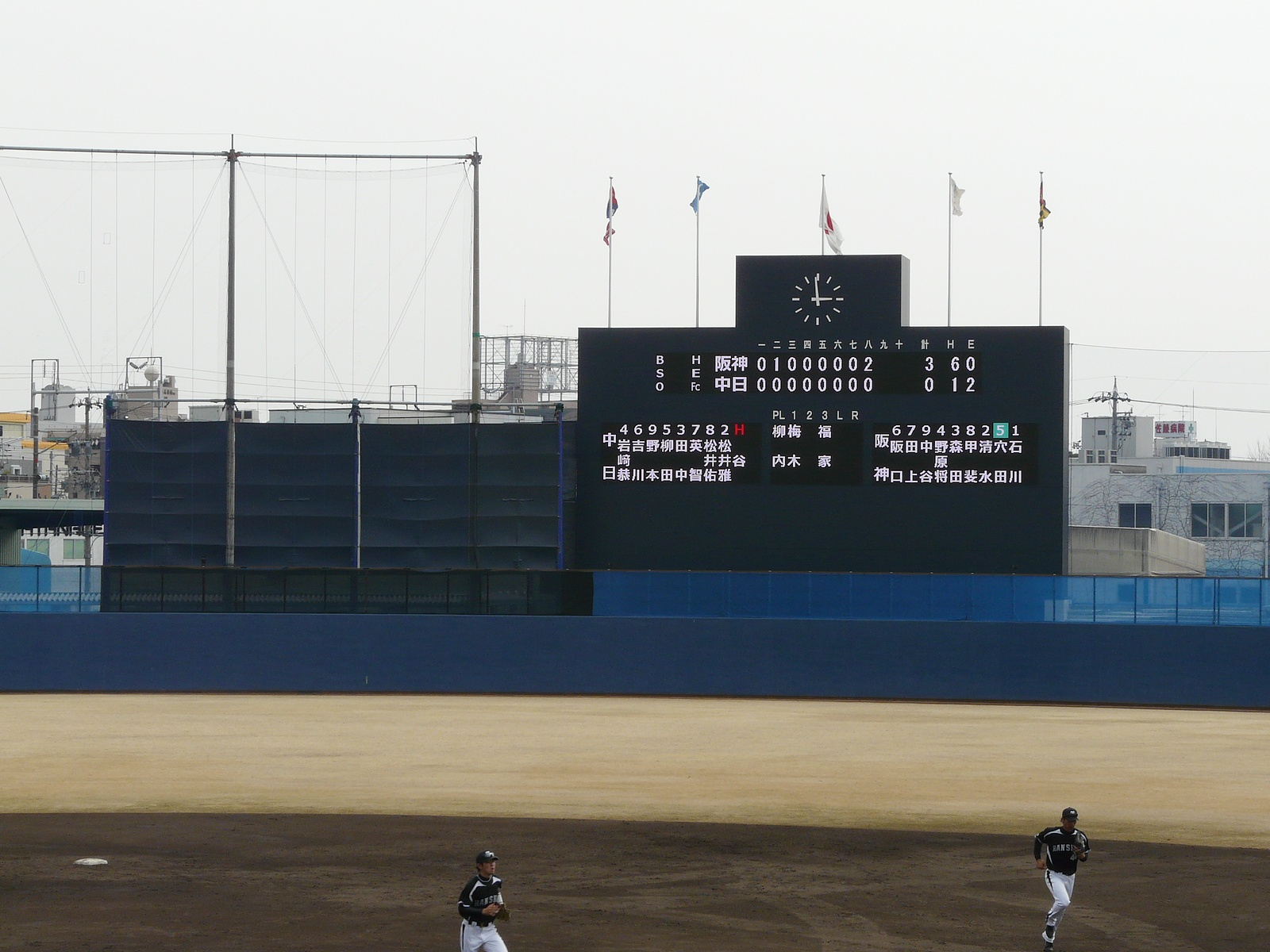 Nagoya_Baseball_Stadium_07